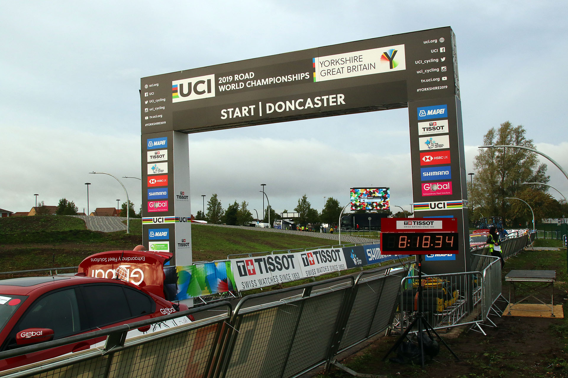 Before the Friday start at Doncaster - not a sight we are ever likely to see again! ps the Doncaster circuit was offically opened in August but so far the public have not been able to use it ...